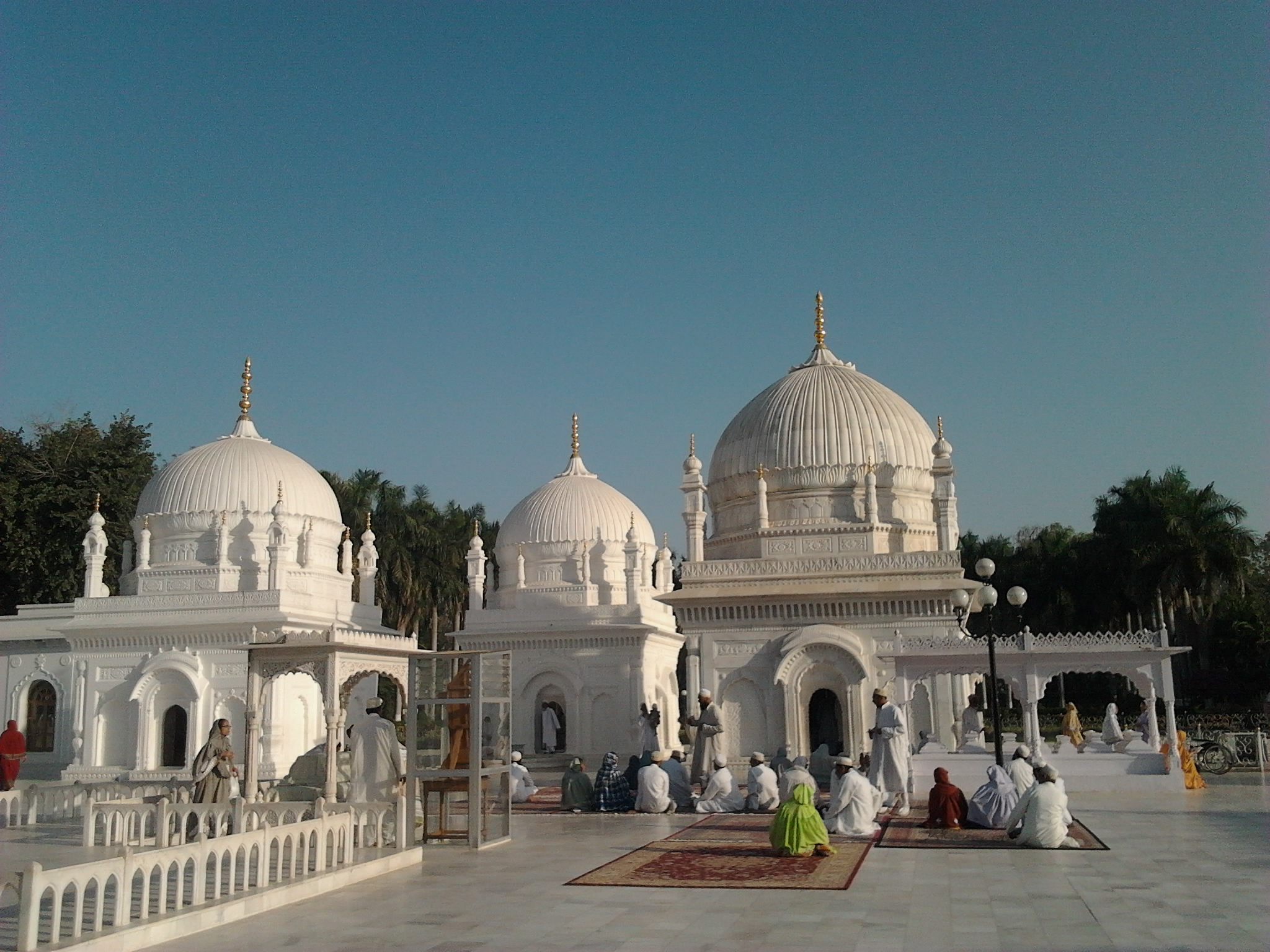 mausoleum of dawoodi Bohra Duwat,Burhanpur era